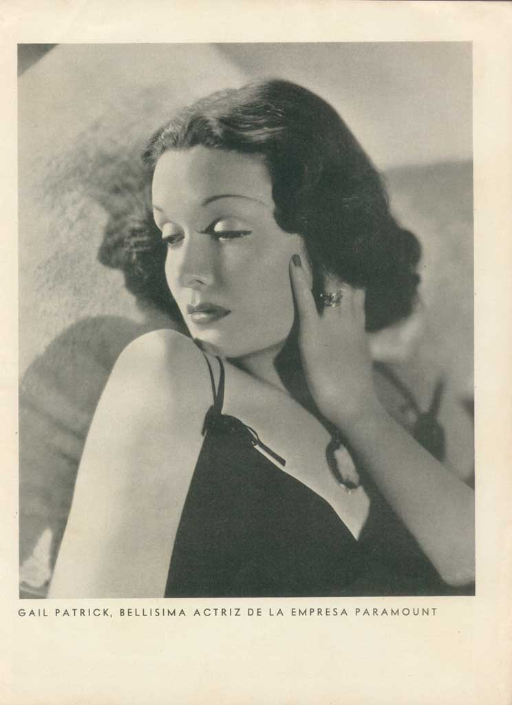 Publicity photo of Gail Patrick for Argentinean Magazine. (Printed in USA)